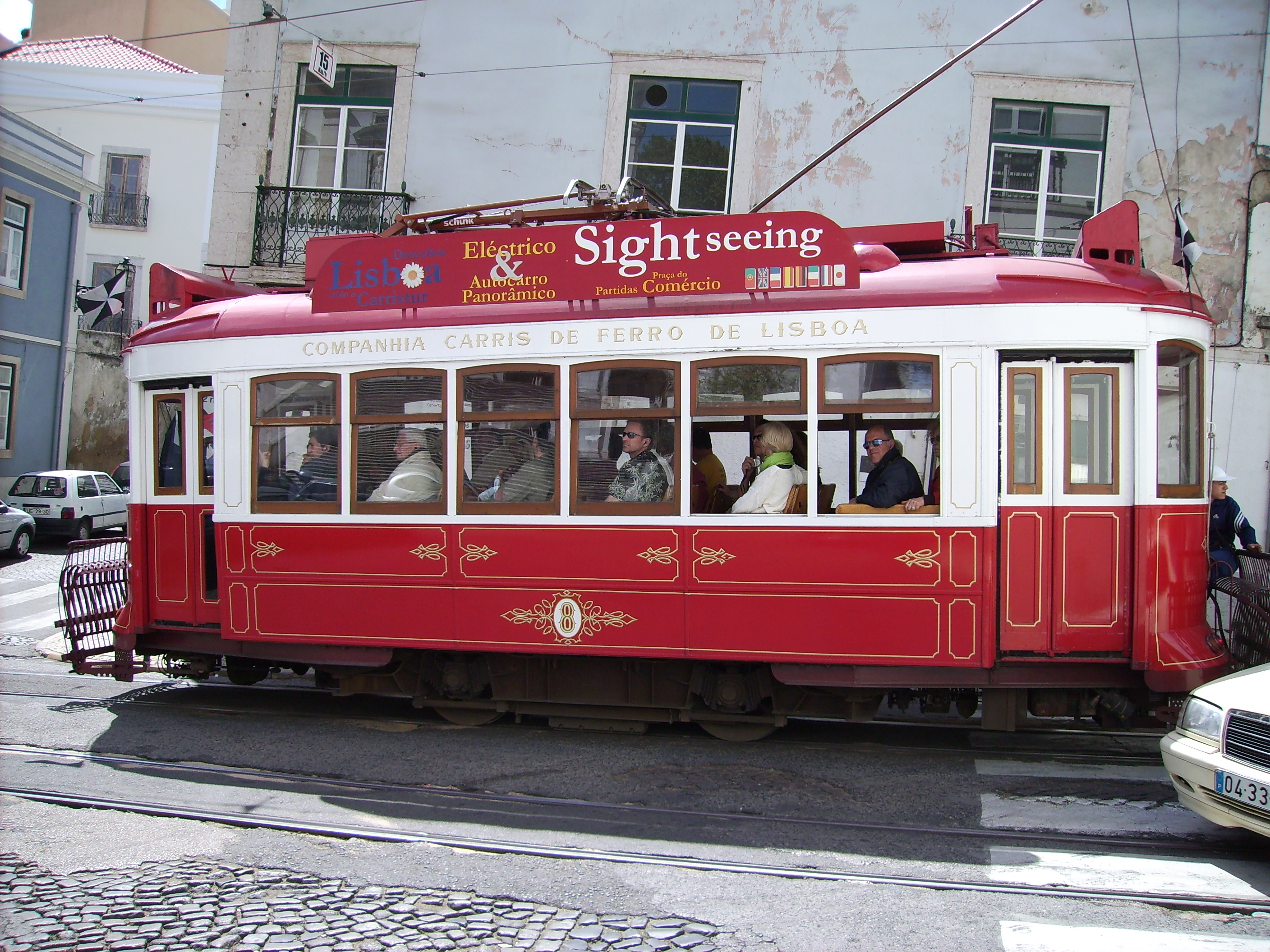 Tourist tram in Lisbon